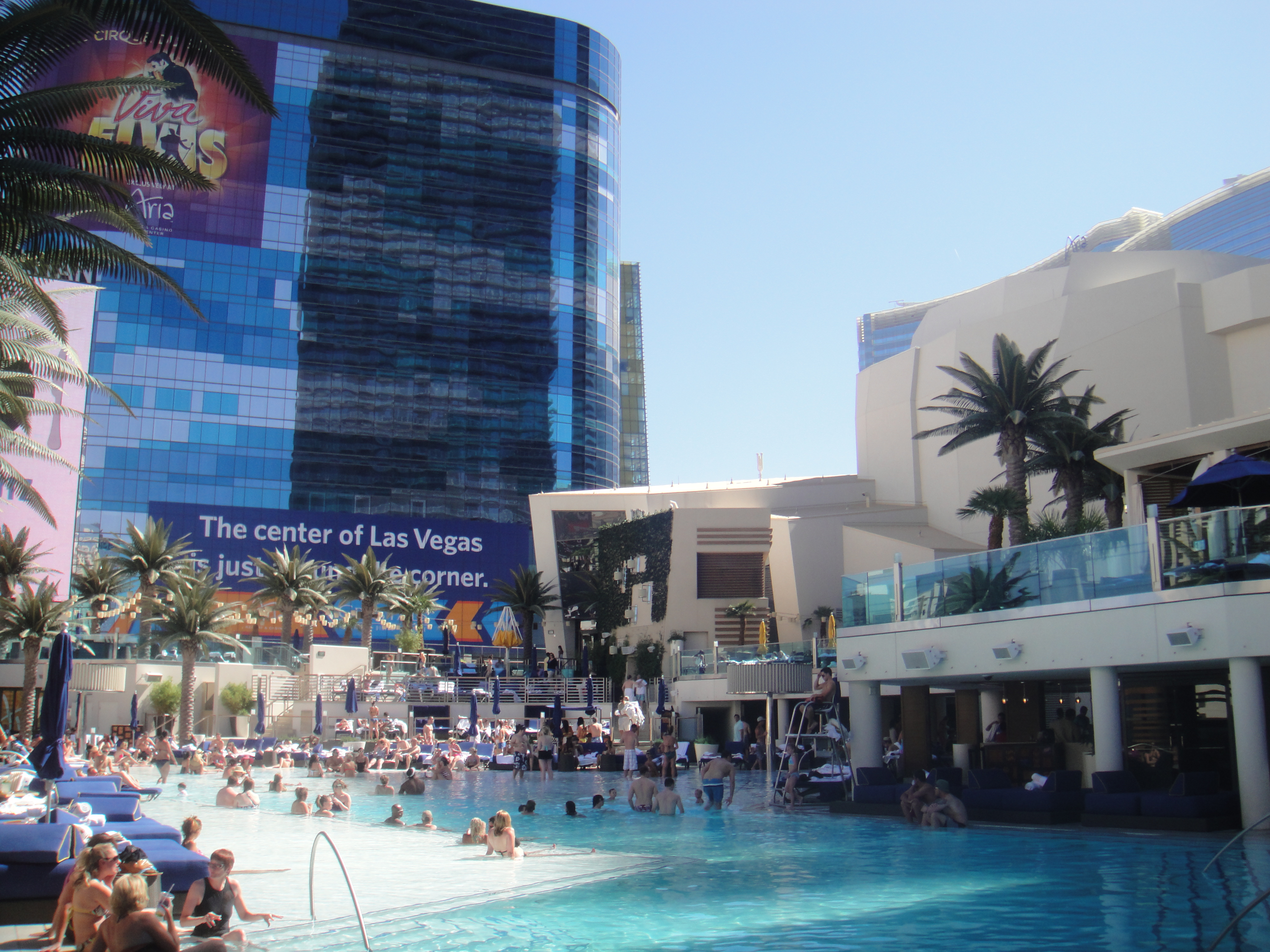 The pool deck at the Cosmopolitan